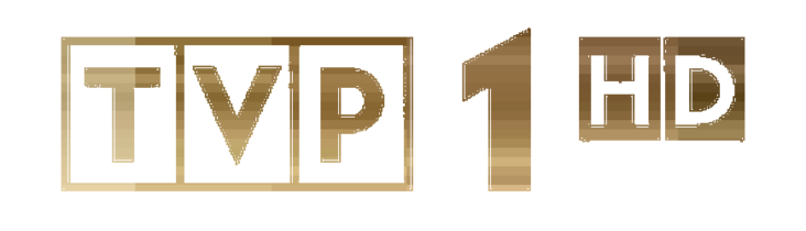 TVP S.A.